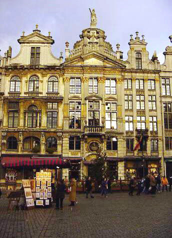 The Grand Place in Bruxelles with a few guildhalls on the north-eastern side (house number 23-27).